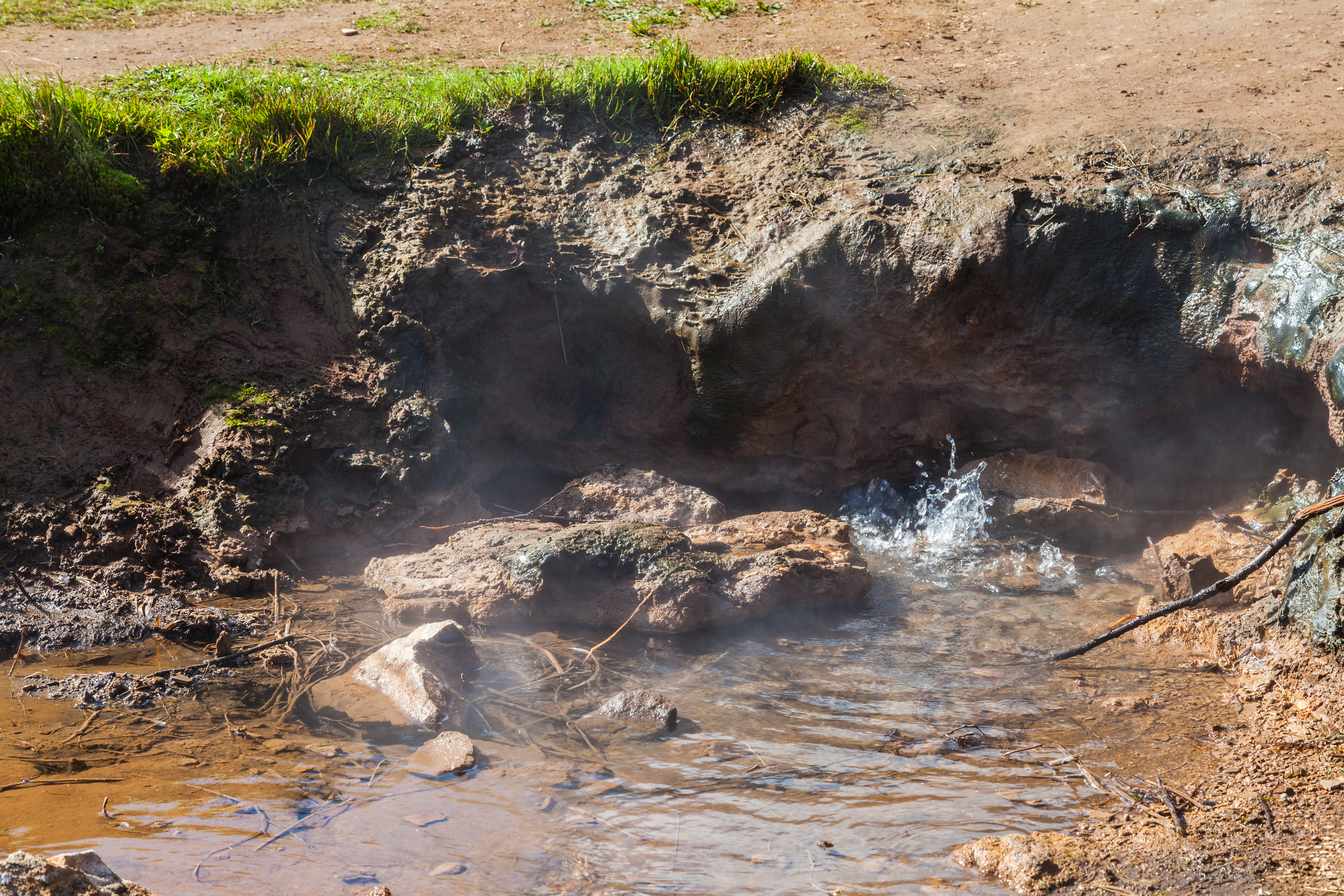 Geysir Geothermal Field, Suðurland, Iceland